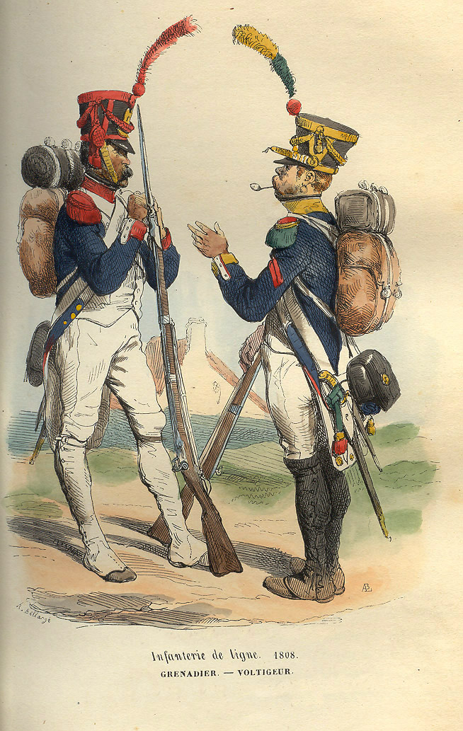 French grenadier (left) and voltigeur (right) of 1808. From book of P.-M. Laurent de L`Ardeche «Histoire de Napoleon», 1843. Original caption: " Infanterie de ligne. 1808.GRENADIER. — VOLTIGEUR."